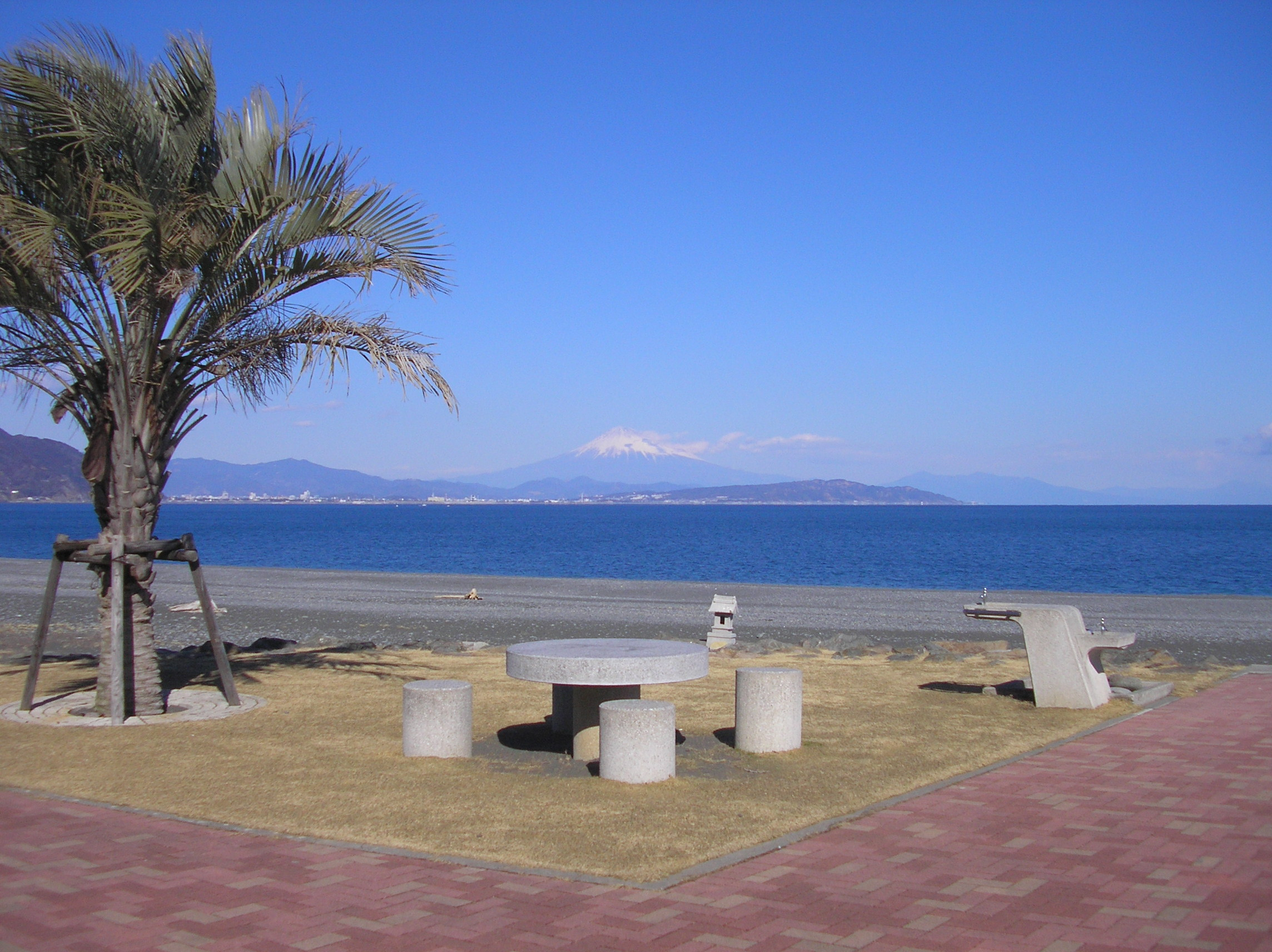 Yaizu Beach